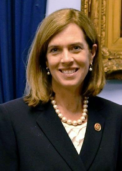 US Representative Katherine Clark (Mass.) June 2014.